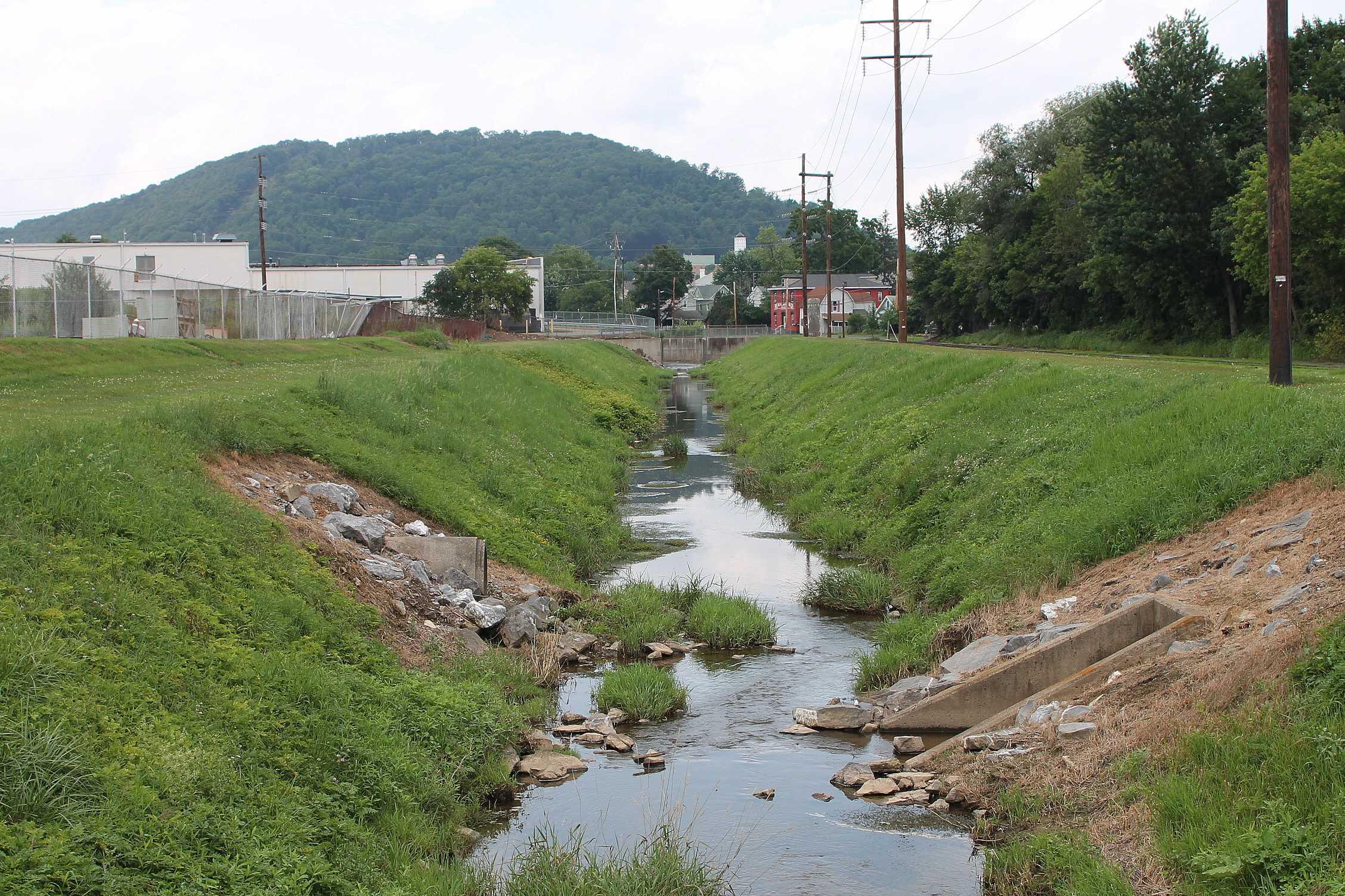 Blizzards Run looking upstream